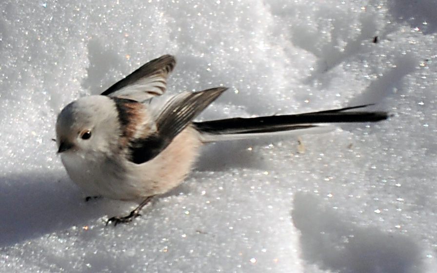 Long-tailed Tit (Aegithalos caudatus)